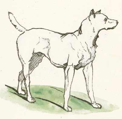 (Removed after reusableart request.)